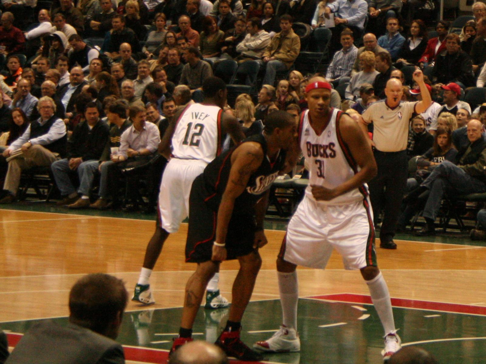 Basketball players, including Andre Iguodala